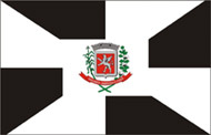 Flag of city of Nova Odessa, São Paulo, Brazil